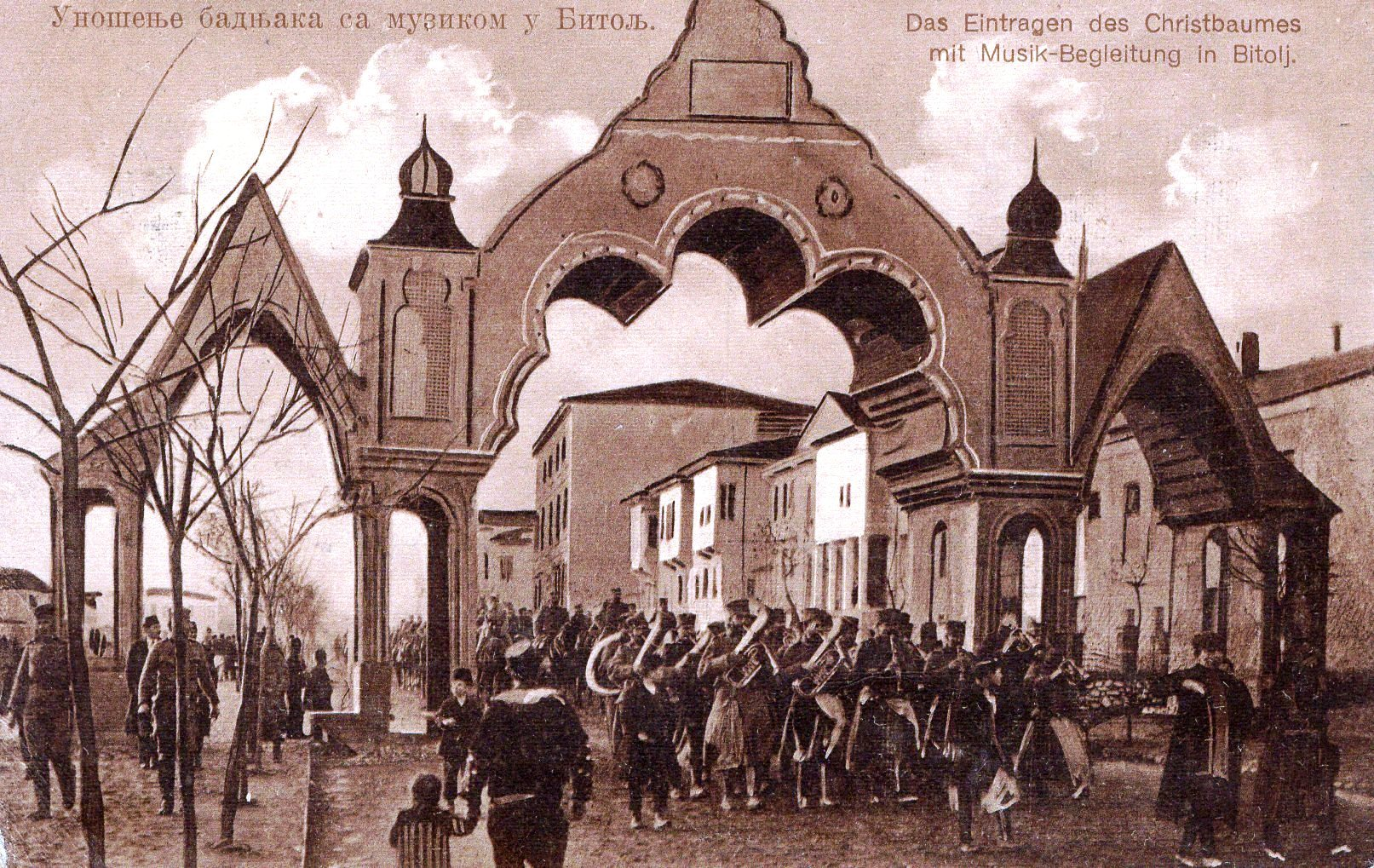 Postcard of Bitola, 1917 This media file is produced by Wikipedian in Residence in Category:Wikipedian in Residence at DARM in 2016.